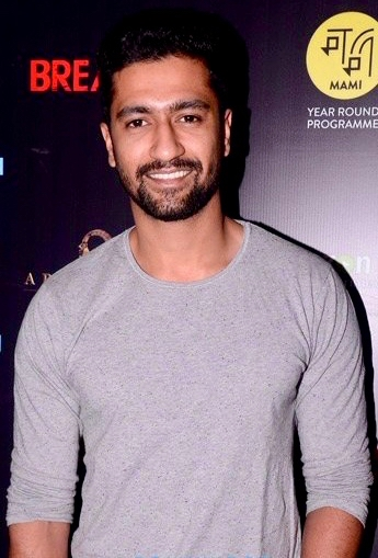 Vicky Kaushal at a screening of Breathe in 2017